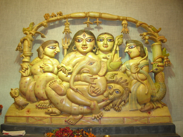 Durga Family in 2007 Kolkata Puja Mandap